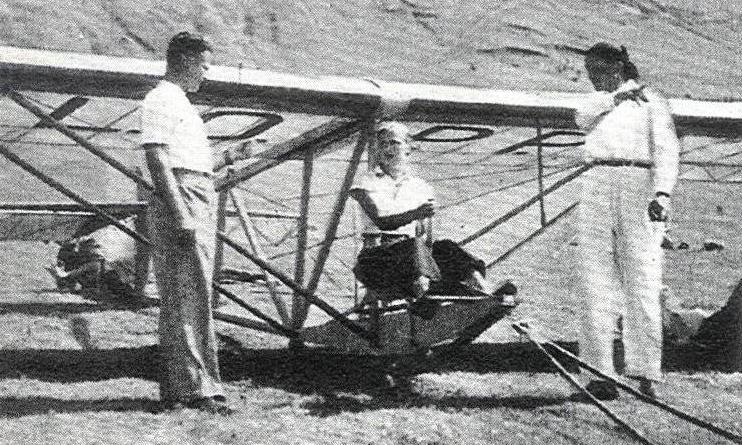 Jadwiga Piłsudska, with a W.W.S.2 Źaba primary glider, at the L.O.P.P. gliding school (gliding school-Sokola Gora) (Liga Obrony Powietrznej i Przeciwgazowej - LOPP - Anti-Gas Defence League )